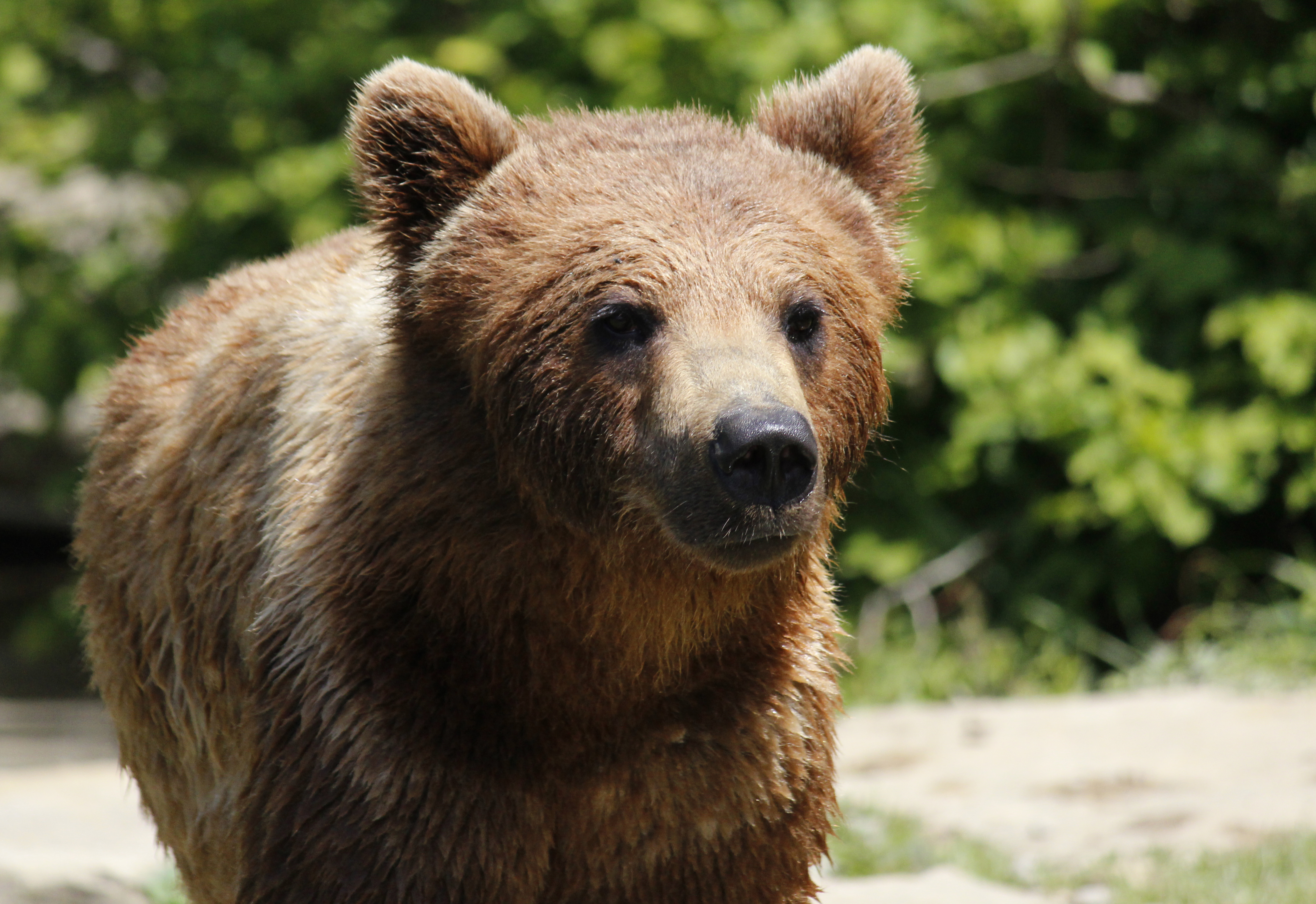 Bär im Wildnispark Zürich-Sihlwald